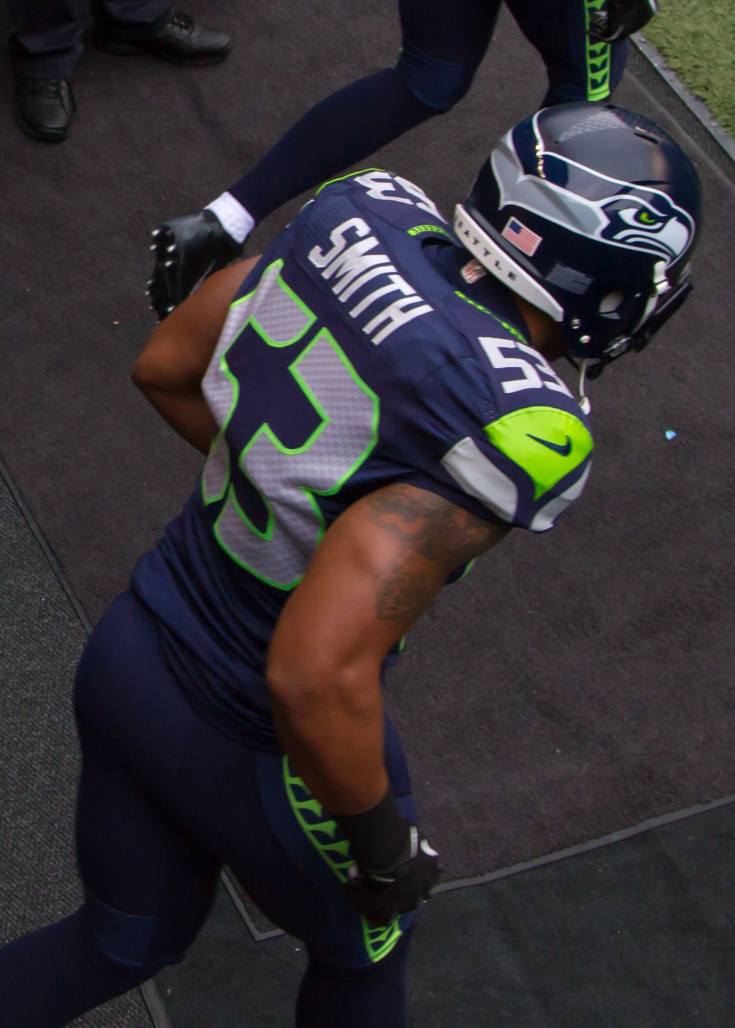 Malcolm Smith, Seahawks vs Rams 12.29.13